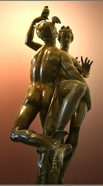 Mercury and Psyche. Bronze, 1593, commissioned by Emperor Rudolf II.